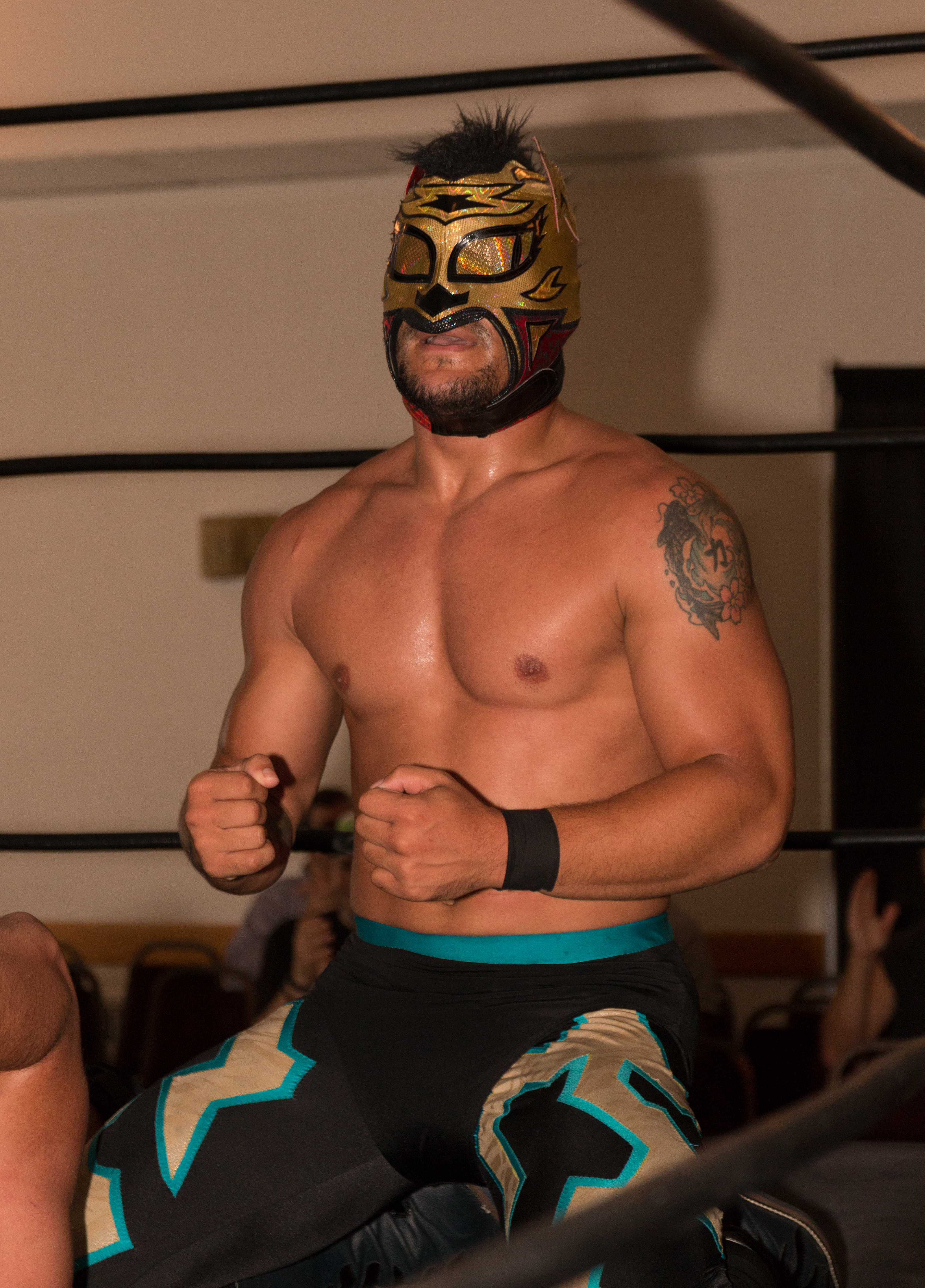 Lince Dorado, immediately post-match. Photo was taken at LuchaTO Chapter 2 in Toronto, ON